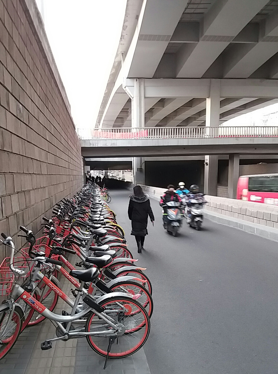 Bikes Mobike & Ofo put on sidewalks to prevent people from walking